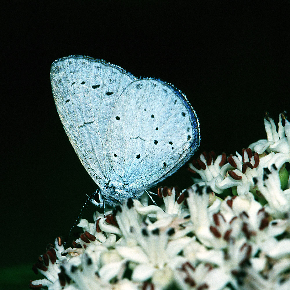 Holly Blue (Celastrina argiolus)